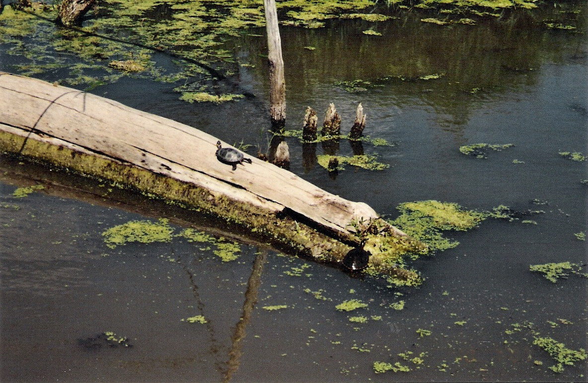 Turtles, taken just west to the Park Entrance off of the Wetland Boardwalk